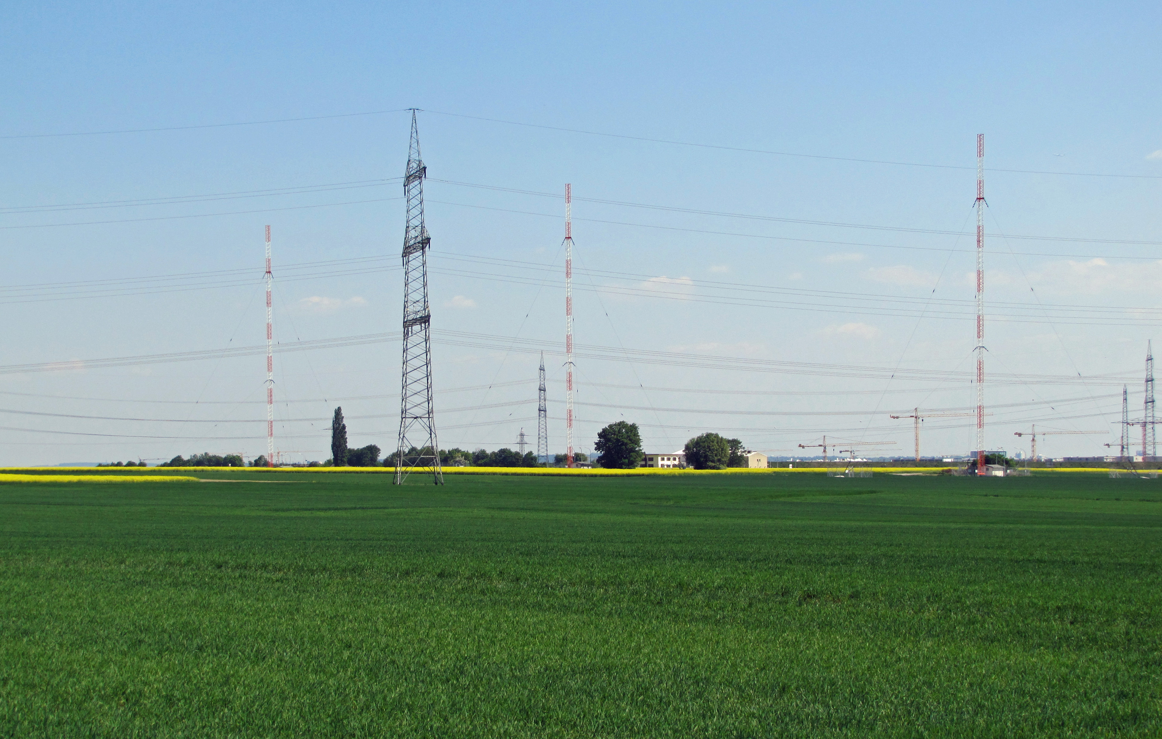 Radio transmitter at "Oberursel-Weisskirchen" (AFN Wiesbaden), Hesse, Germany.